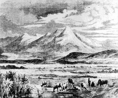 The Breadfield